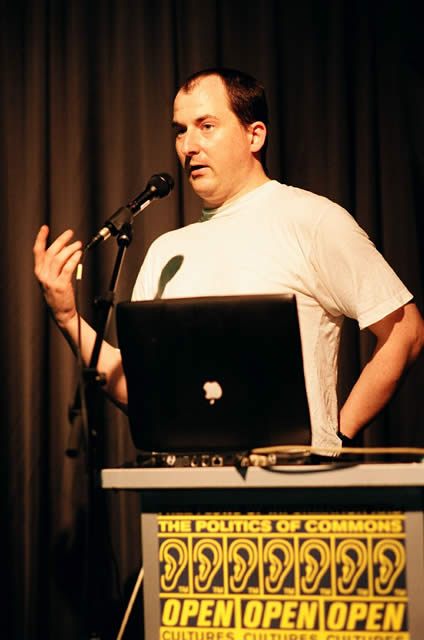 Andy Müller-Maguhn of the Chaos Computer Club at Open Cultures